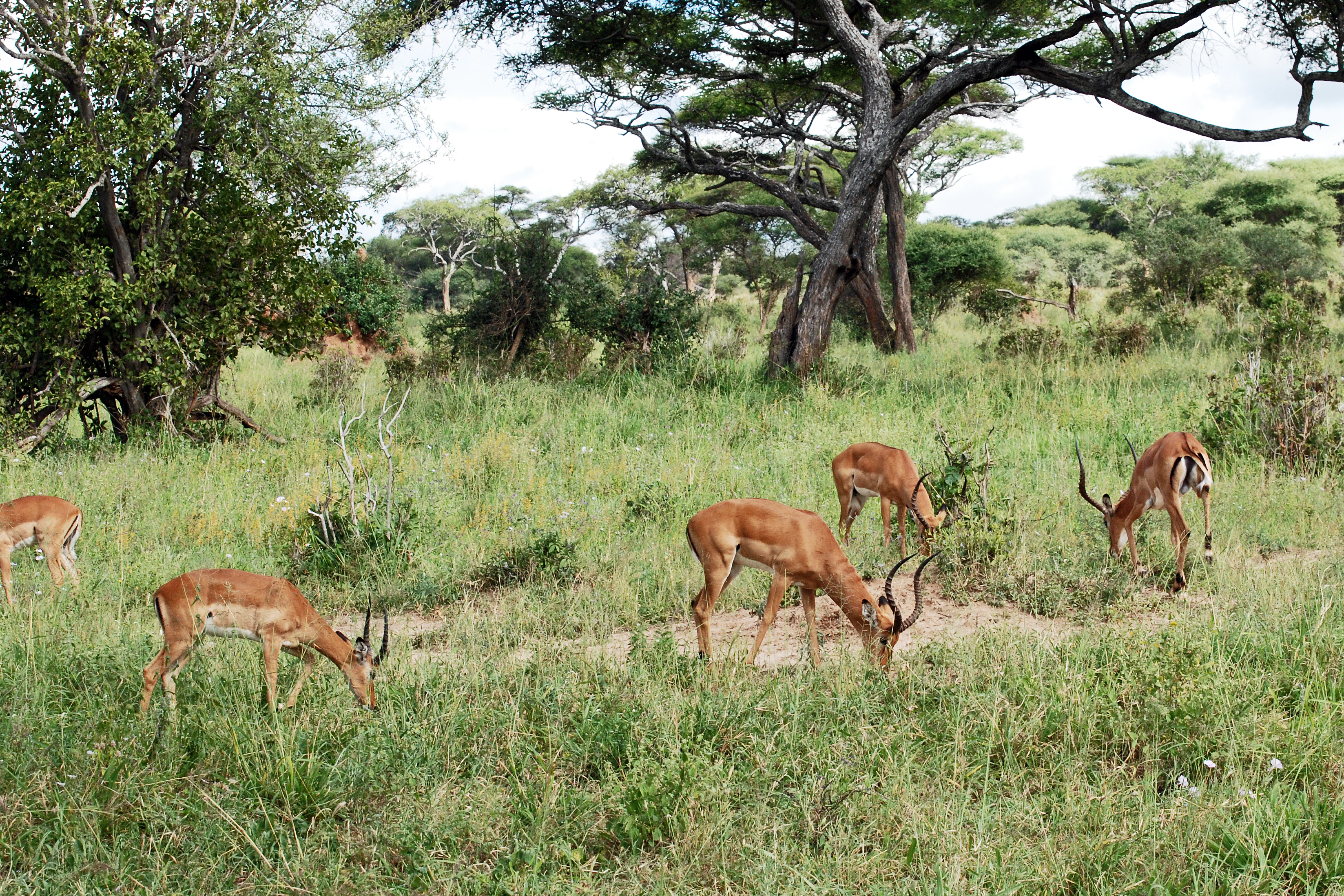 An impala (Aepyceros melampus) is a medium-sized African antelope. The name impala comes from the Zulu language meaning "gazelle"